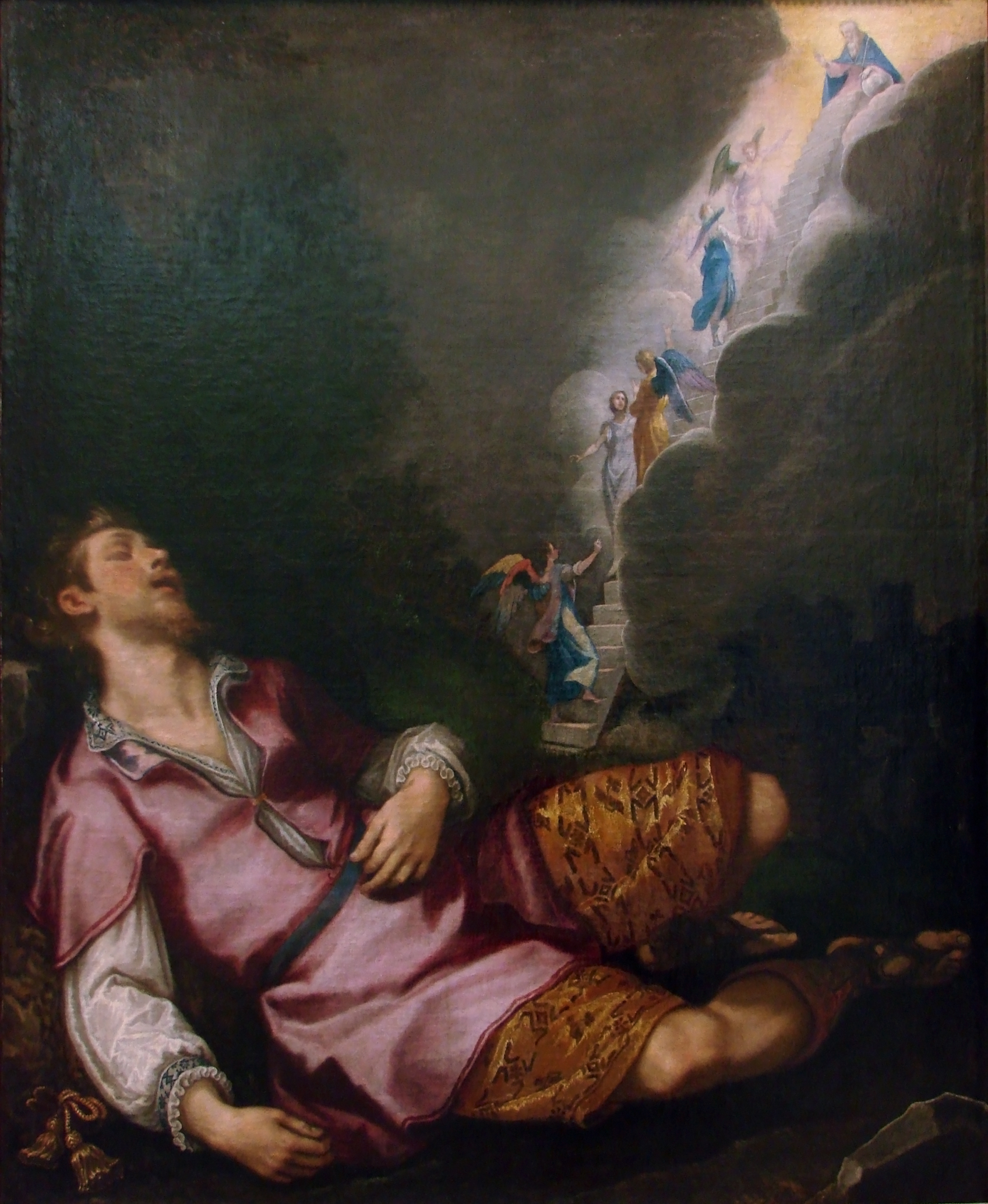 Jacob's dream, Cigoli ( Lodovico Cardi ), 1593, oil on canvas. Musée des Beaux-Arts de Nancy.